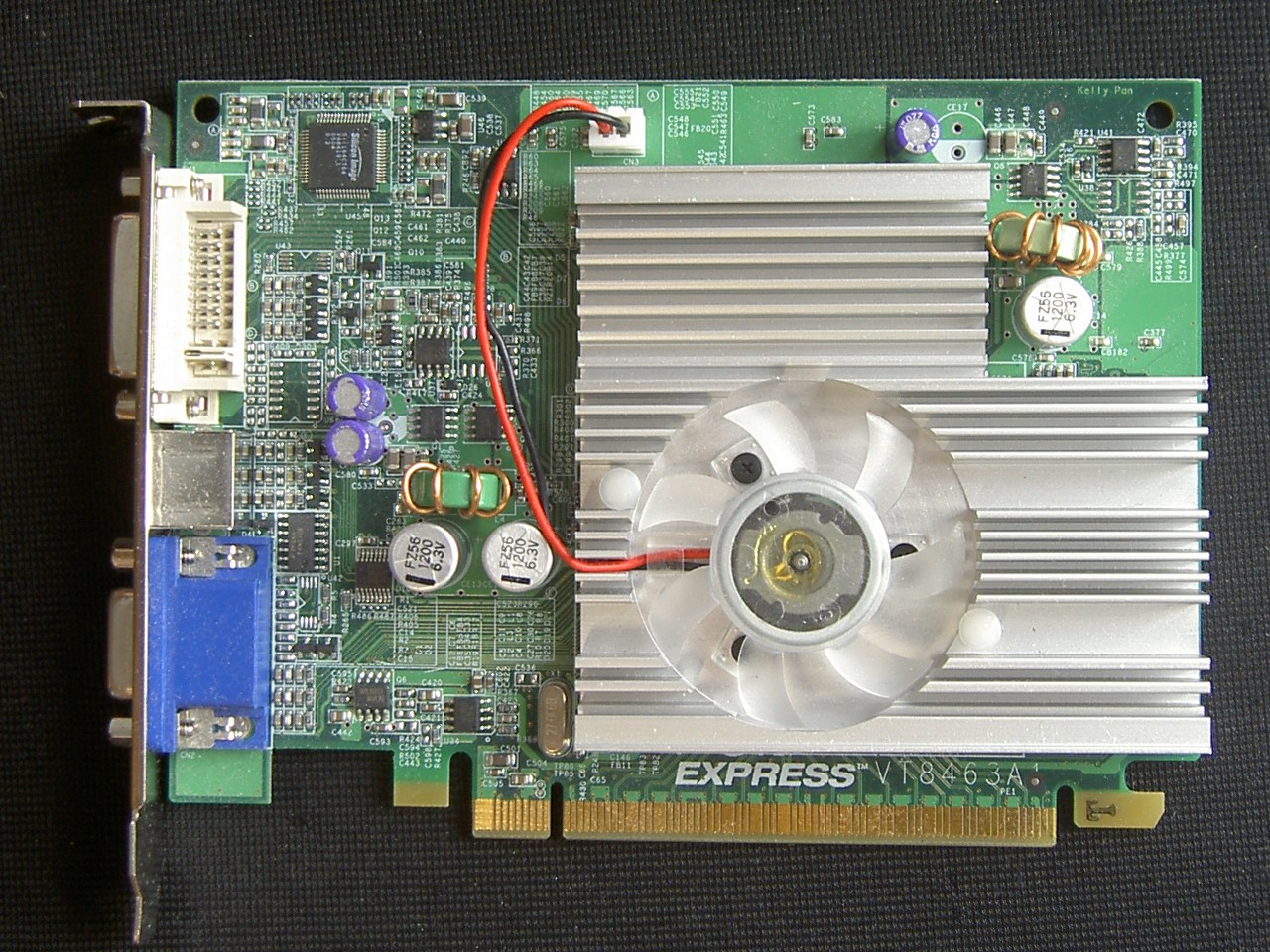 S3 Chrome S27JE PCI-Express 16x Cars